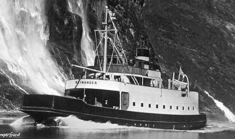 Norwegian car ferry MF Geiranger, built in 1937. Picture is taken in Geirangerfjord